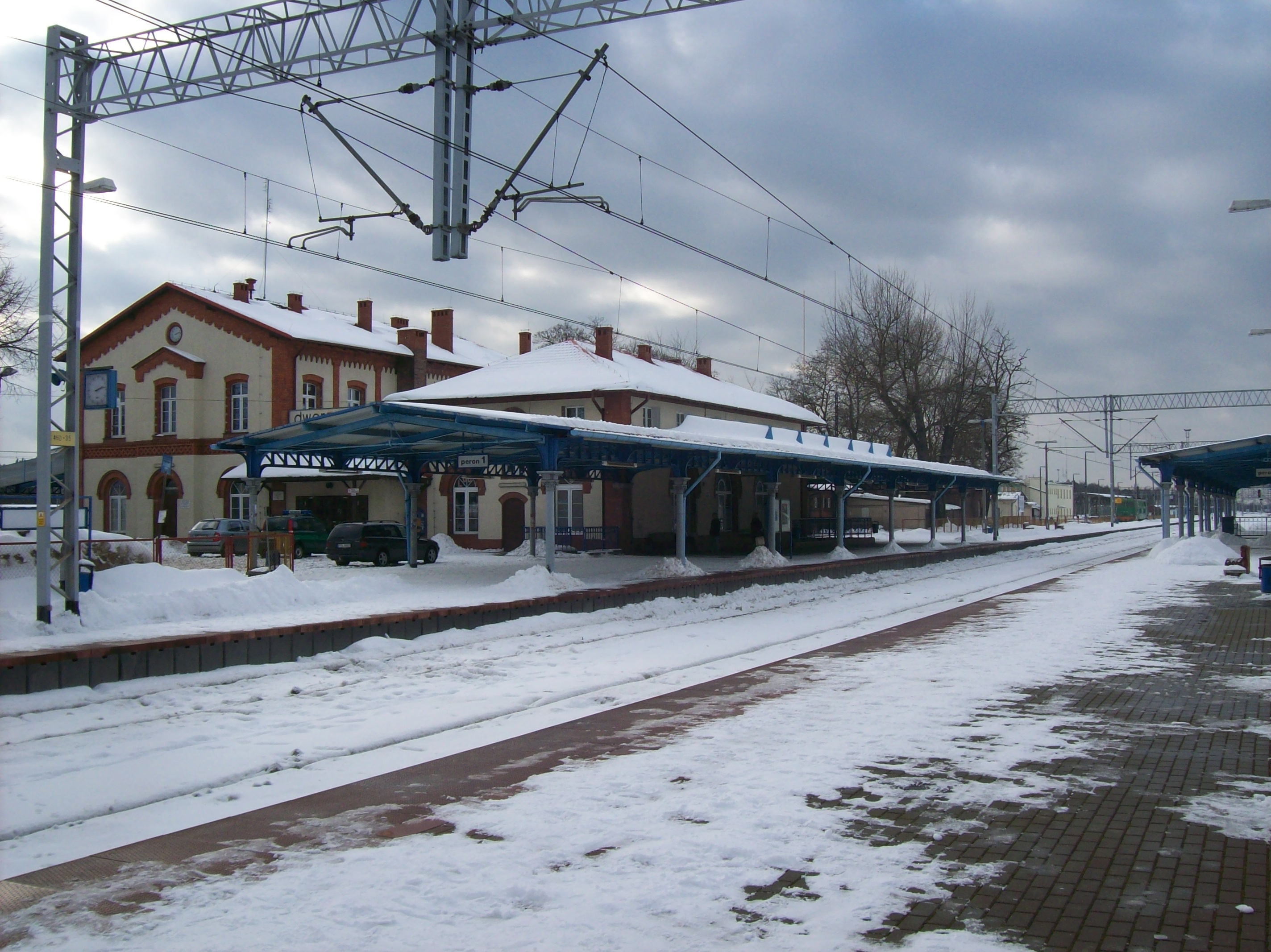 Train station in Rzepin (Poland).